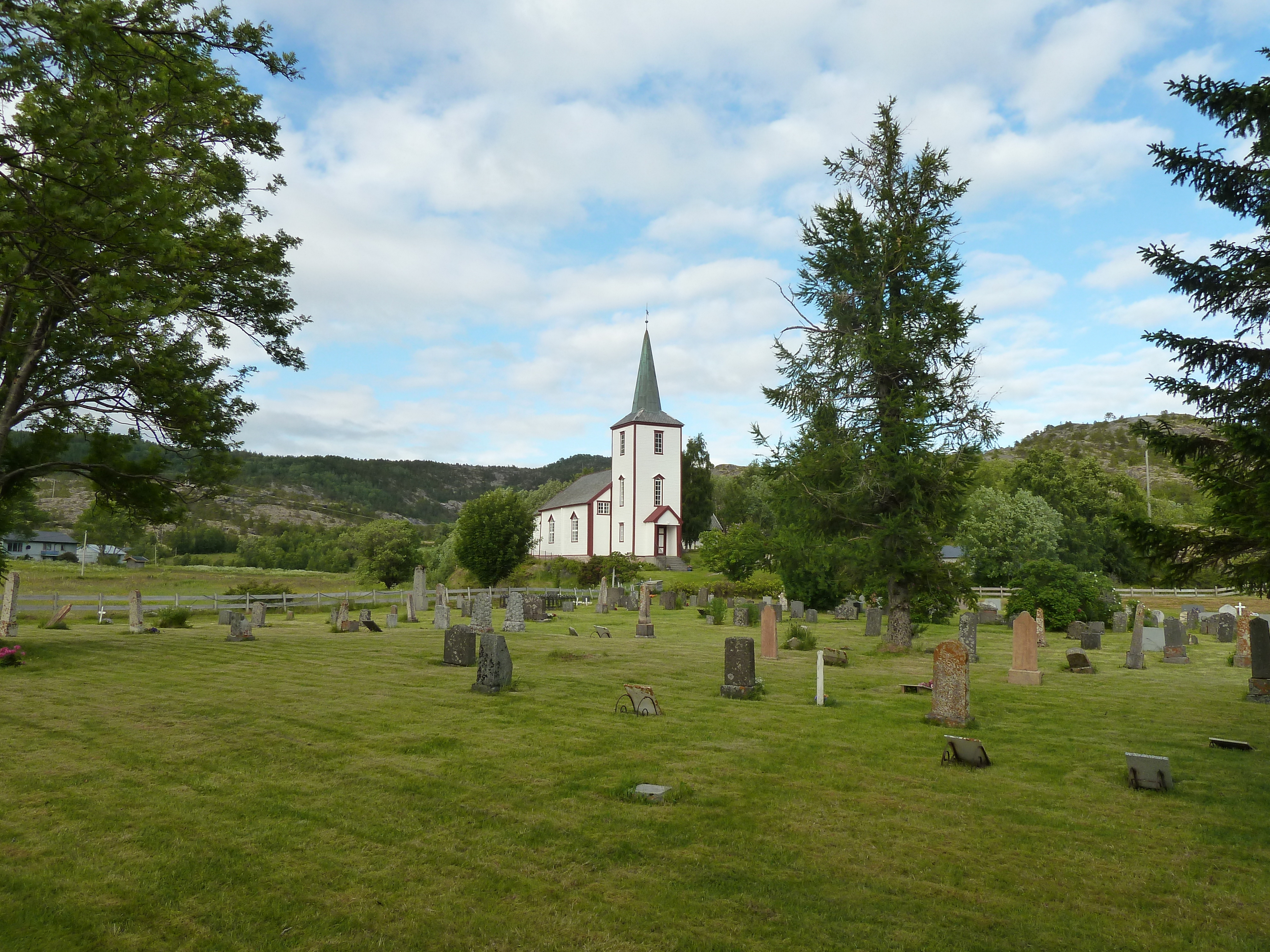 Sagfjord Church at Finnøya in Hamarøy, Norway.